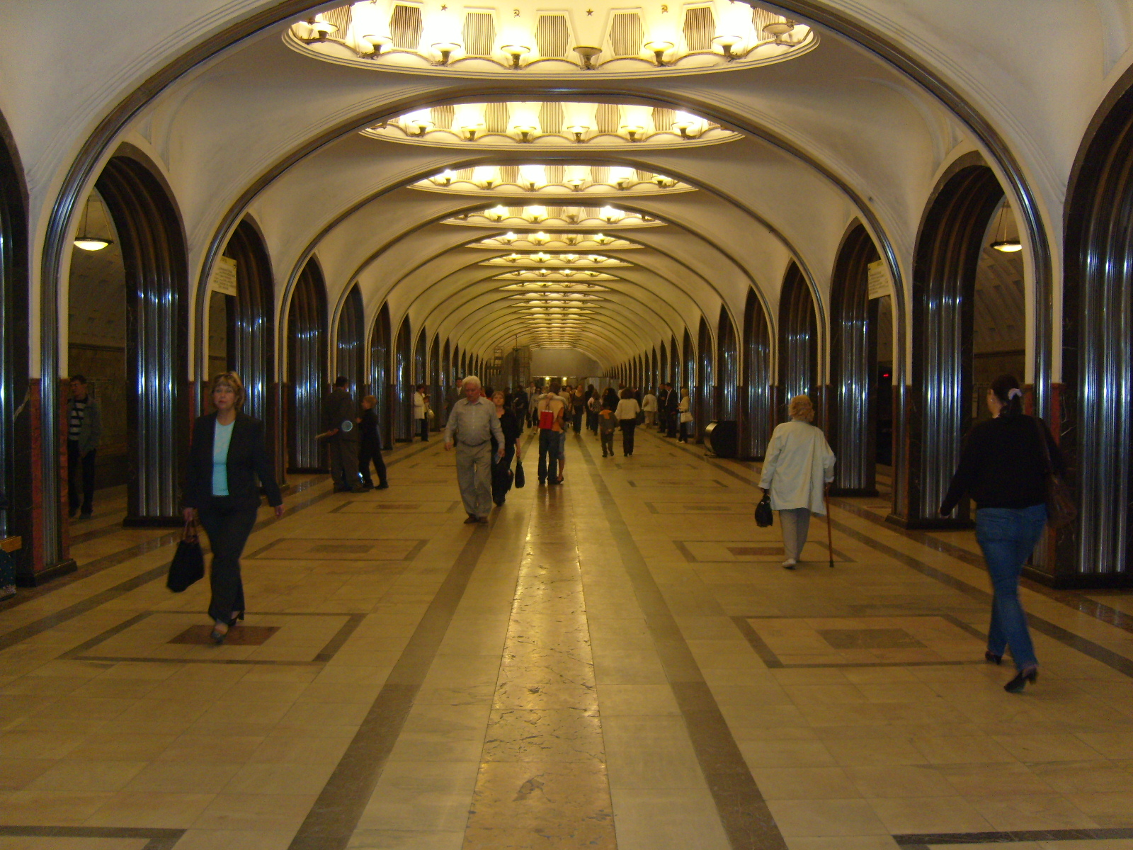 Moscow Metro station "Mayakovskaya"